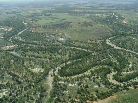 The Great Darling Anabranch in flood, December 2010. Photograph taken from an airplane by Deborah Bogenhuber.